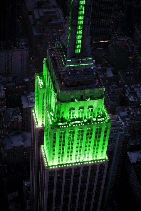 Empire State Building City Harvest Colors